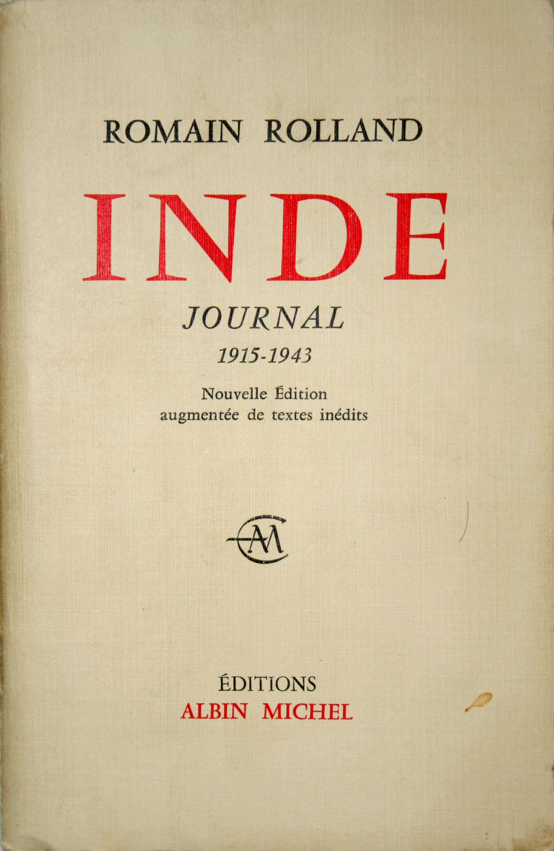 Romain Rolland, Inde, Journal 1915-1943, book cover. Published by Albin Michel, Paris, 1960.